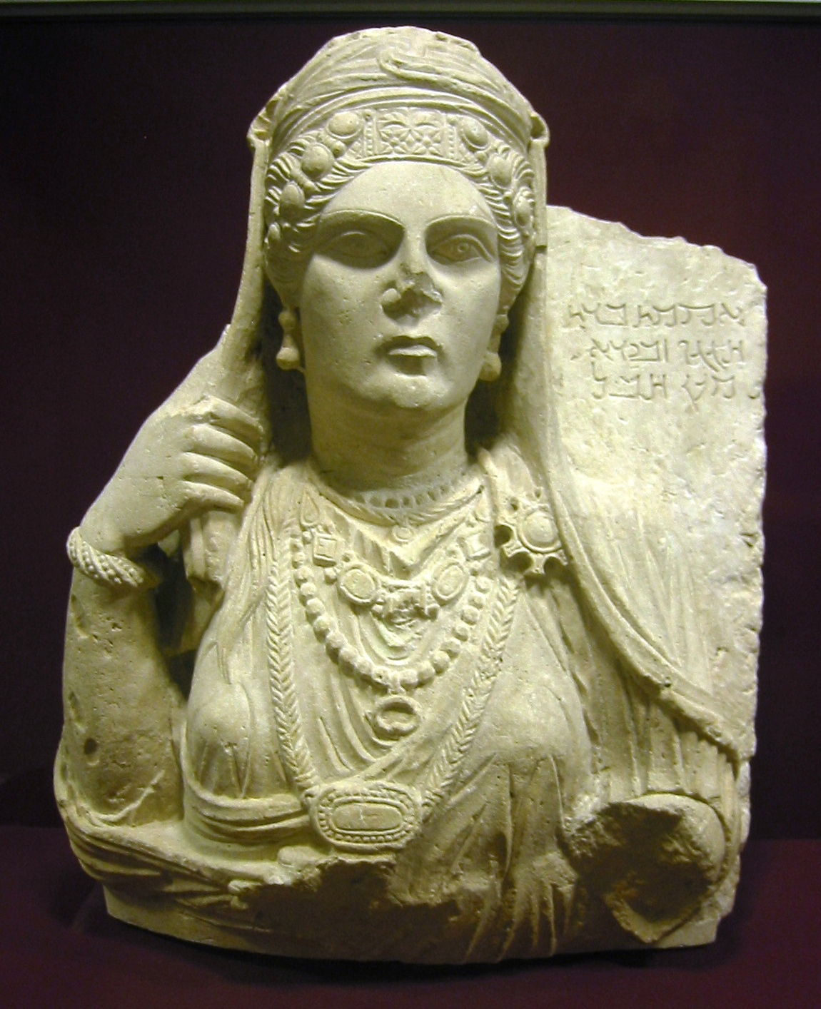 Funerary bust of Aqmat, daughter of Hagagu, descendant of Zebida, descendant of Ma'an, with Palmyrenian inscription. Stone, late 2nd century CE. From Palmyra, Syria.